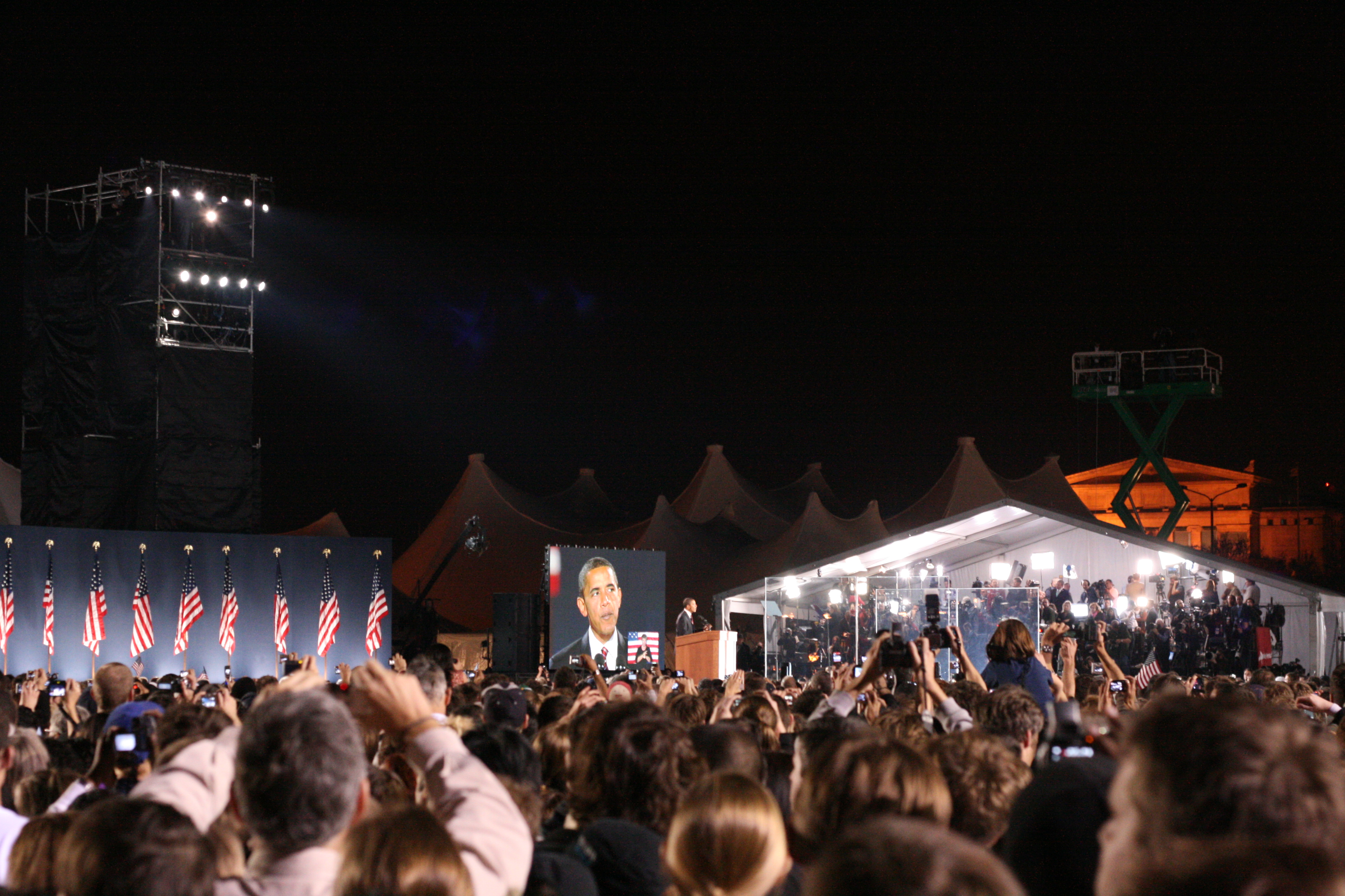 Most of my pictures were blurry - but this one turned out phenomenally well.